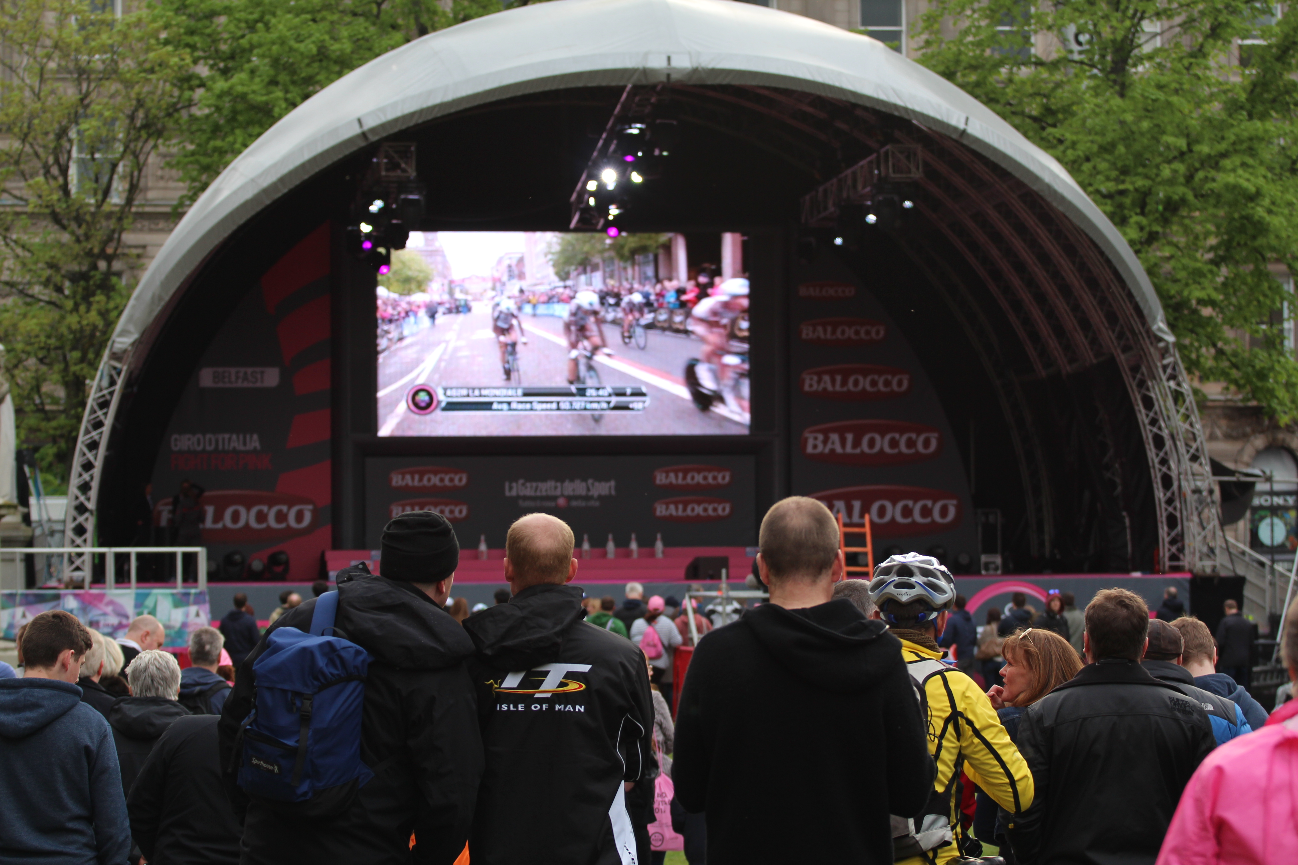 Giro d'Italia 2014, Day 1, Time Trials, Belfast, 9 May 2014. Big screen and presentation podium in the grounds of Belfast City Hall.